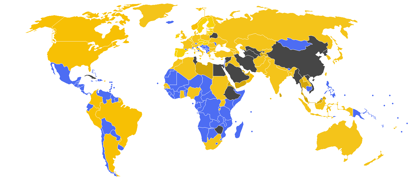 Obstacles to the free flow of information online.